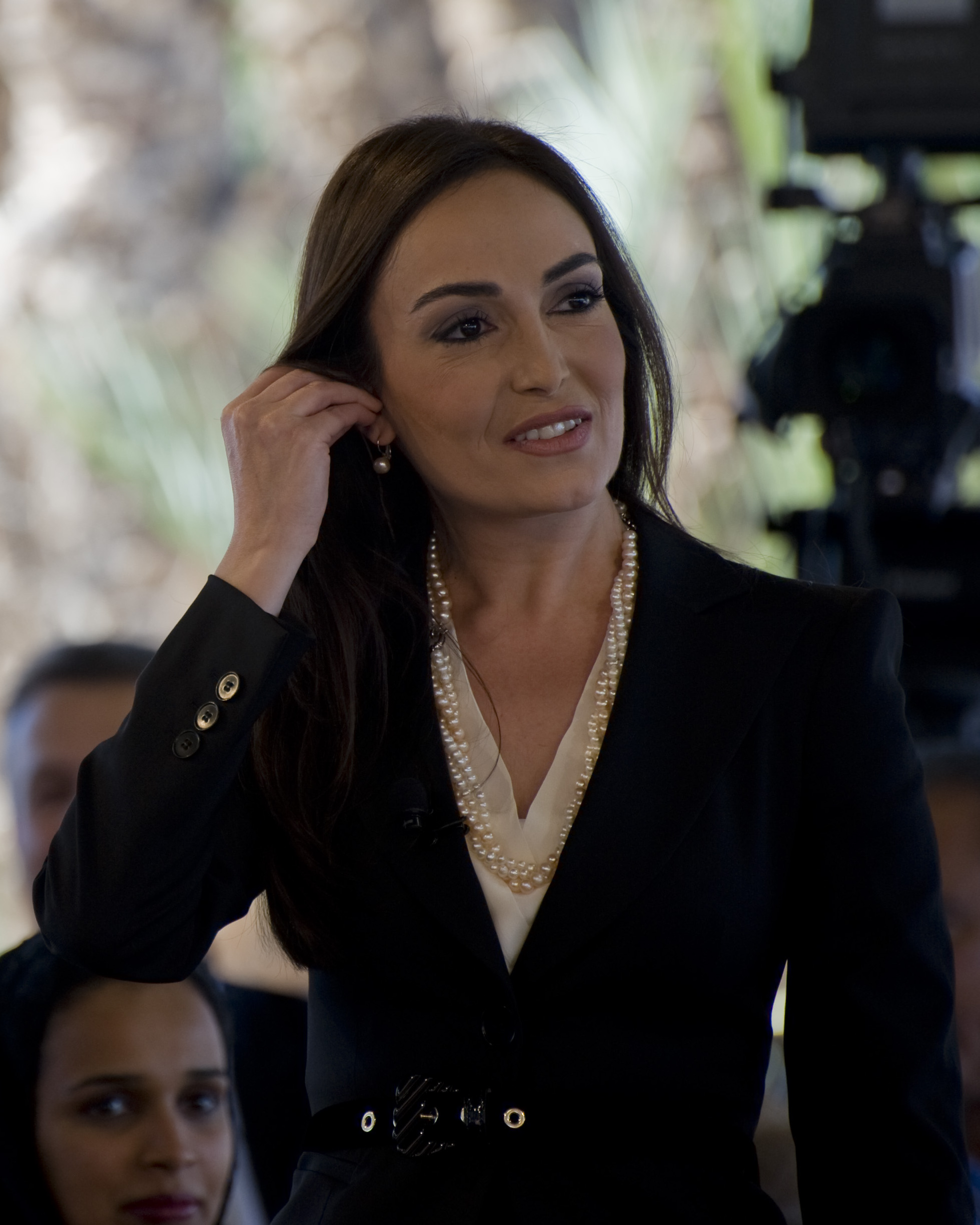 MARRAKECH/MOROCCO, 28OCT10 - Nadine Hani, Senior Presenter, Al Arabiya, United Arab Emirates; Al Arabiya Debate Recharting Arab Banking- World Economic Forum on the Middle East and North Africa Marrakech, Morocco, 28 October 2010. Copyright World Economic Forum ( by Oussama Rhaleb/still